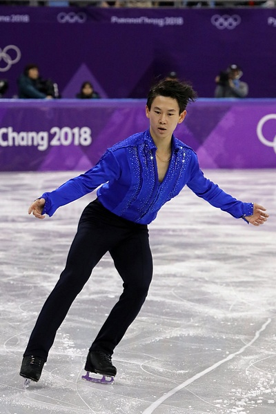 Denis Ten at the 2018 Winter Olympics